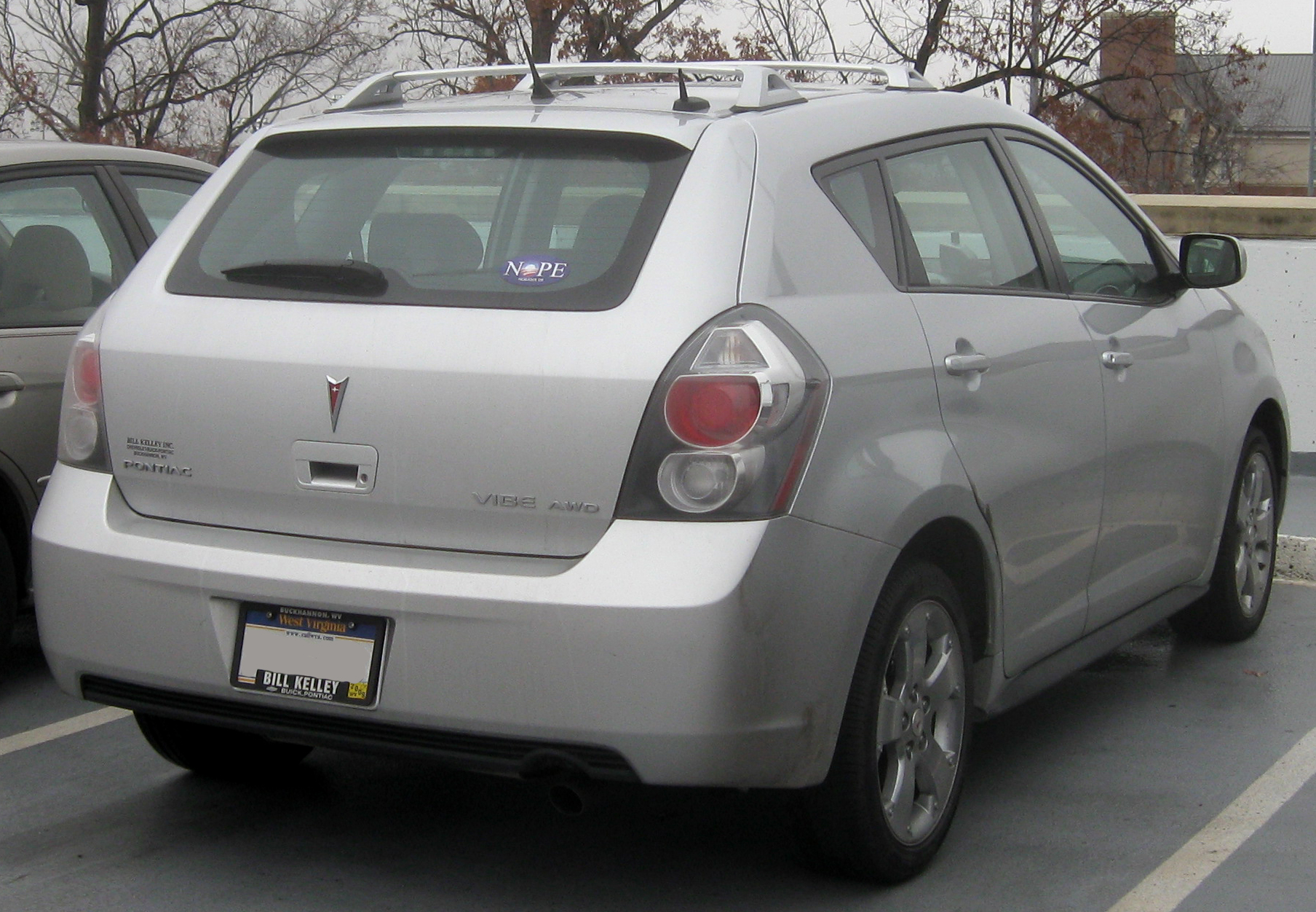 2009 Pontiac Vibe photographed in College Park, Maryland, USA.